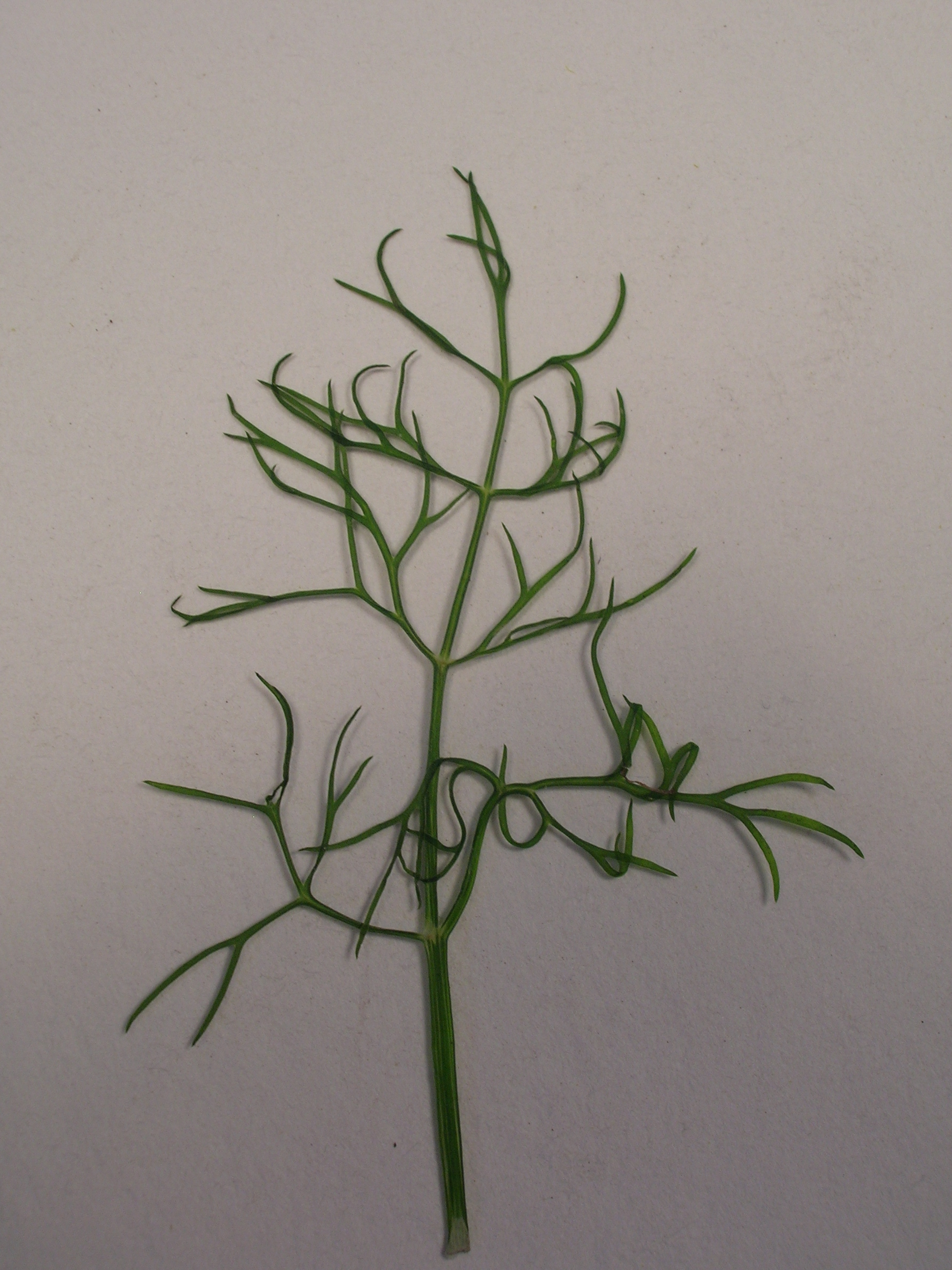 Anethum graveolens (voucher 080608 06). Location: Midway Atoll, 3501 Cannon Ave Water plant Sand Island